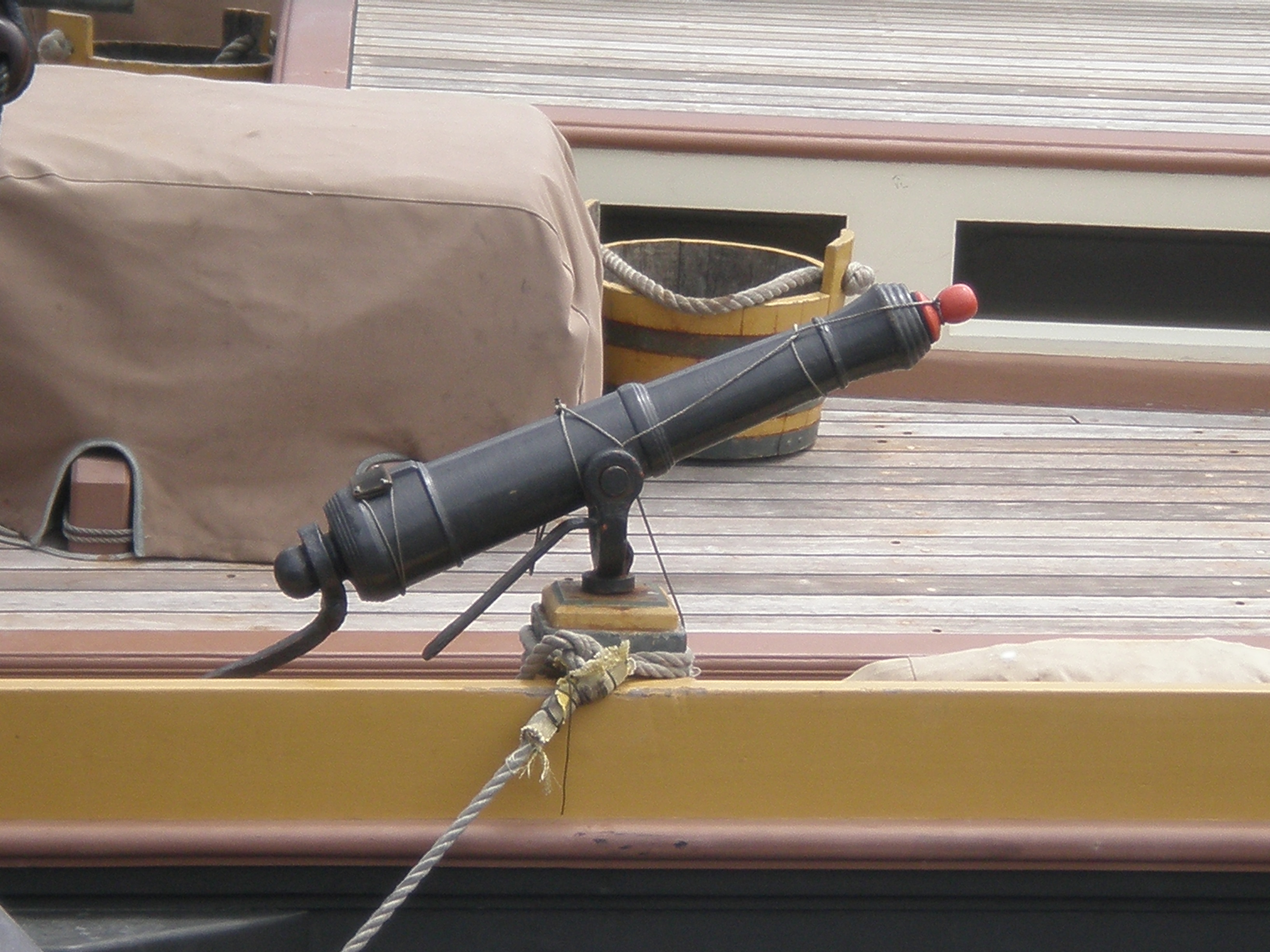 A swivel gun on the Lynx, seen while the ship was docked during the Festival of Sail San Francisco 2008.